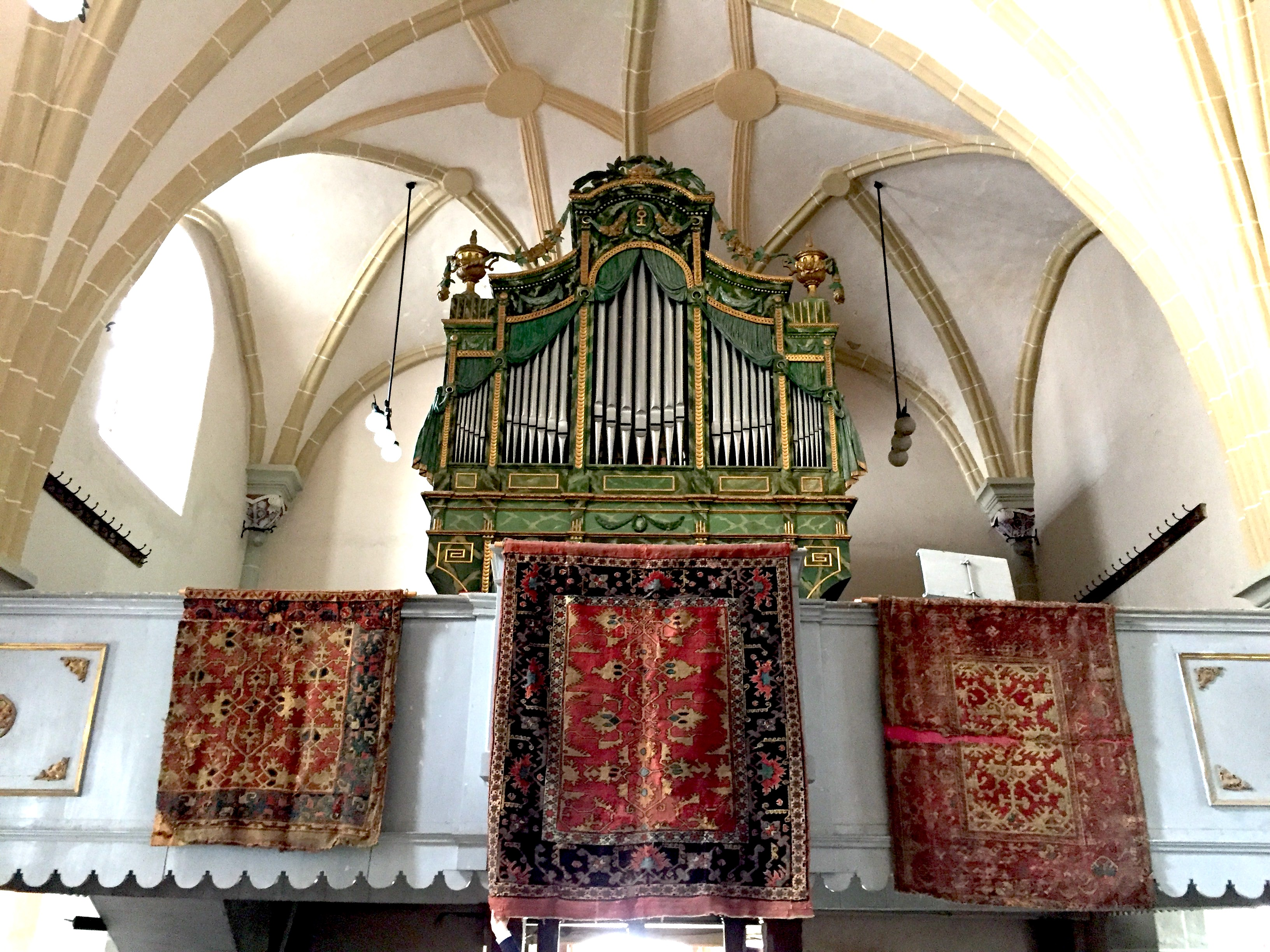 The organ gallery of the Saxon fortified church in Hărman, Brașov County, Romania